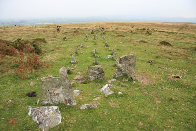 Cosdon Hill Stone Row The western end of the triple stone row on the east slope of Cosdon Hill.